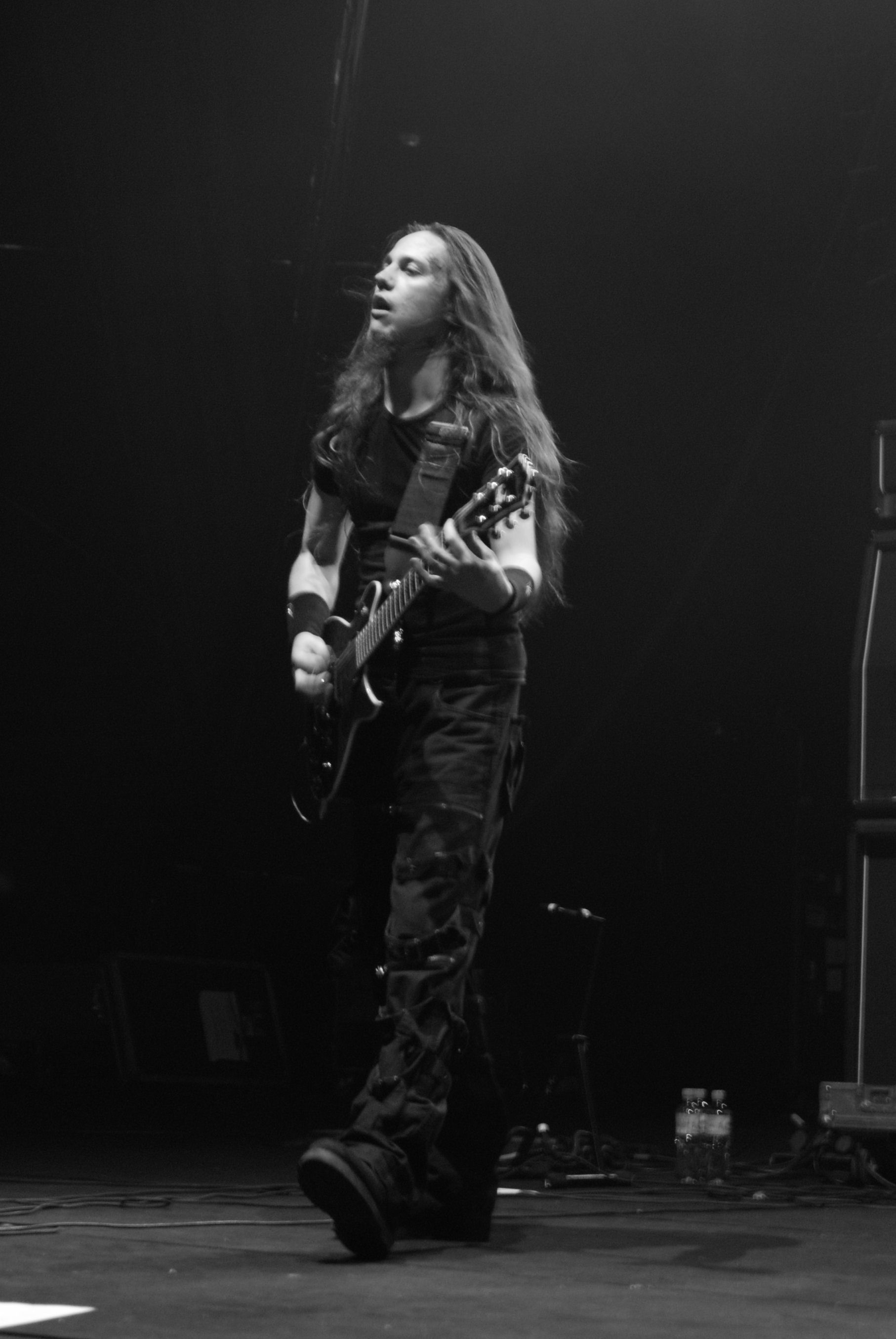 Maurycy "Mauser" Stefanowicz from Vader during Metalmania 2008 festival